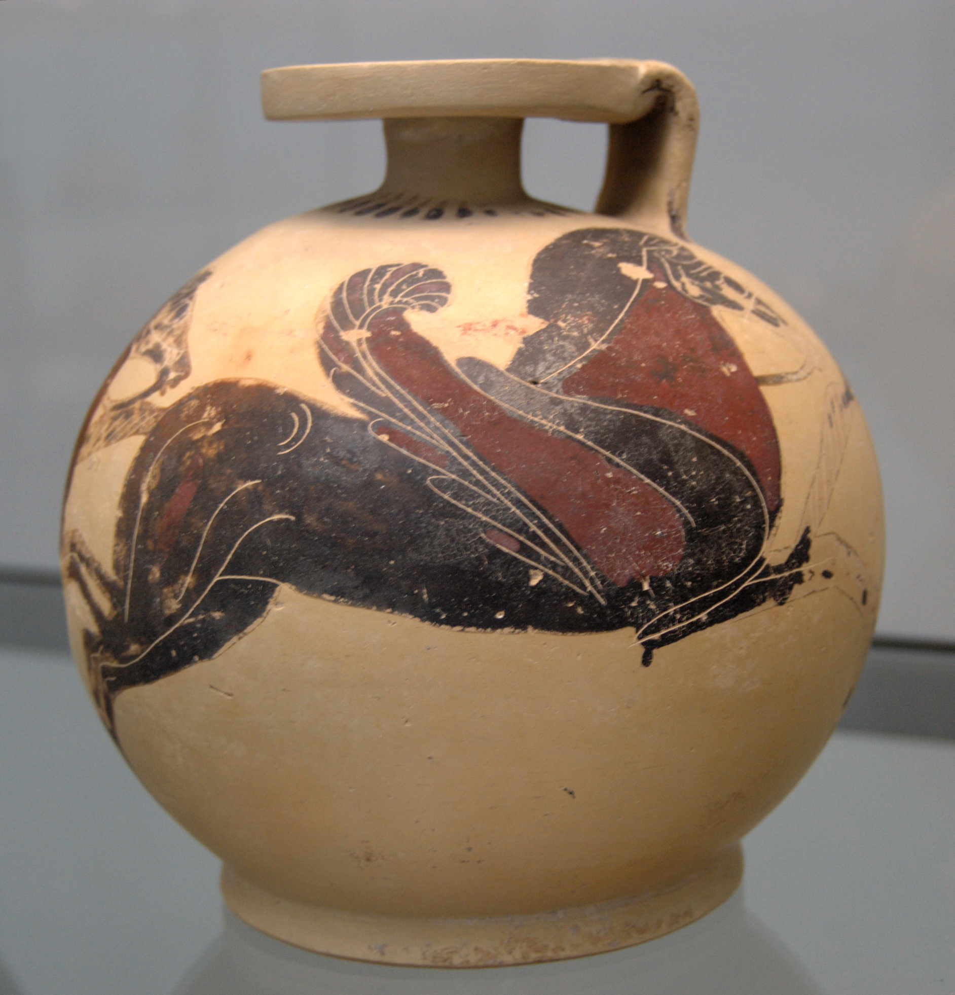 Winged horse with a support (Pegasus). Aryballos, ca. 580 BC.